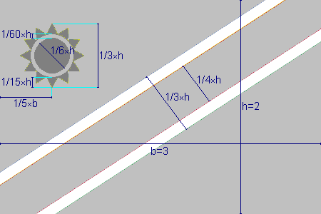 Construction sheet for Namibia's flag, based on dimensions officially specified in the Constitution of Namibia. Note that the vertical position of the sun is not explicitly defined; rather, the sun is specified as equidistant from the white diagonal stripe and the top edge of the flag. Geometrically calculated, this means the distance between the center of the sun and the flag's top edge is 87 13 − 281 120 × h ≈ 0.272358 × h {\displaystyle {87{\sqrt {13 -281 \over 120}\times h\approx 0.272358\times h}